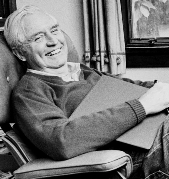 A photo of my deceased father. I took this photo.